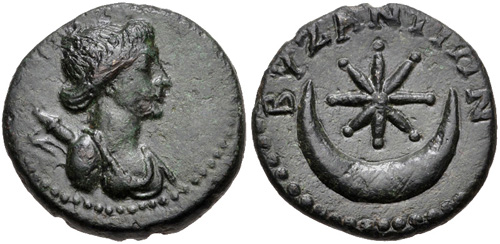 Byzantium. Late 1st century BC - 1st century AD. Æ (19mm, 5.03 g, 6h). Draped bust of Artemis right, bow and quiver over shoulder / Star and crescent.